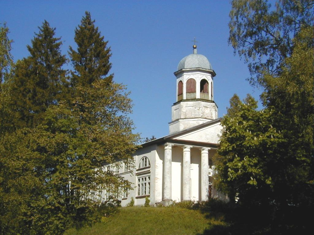 Dzērbene Evangelical Lutheran ChurchLatviešu: Dzērbenes evaņģēliski luteriskā baznīca